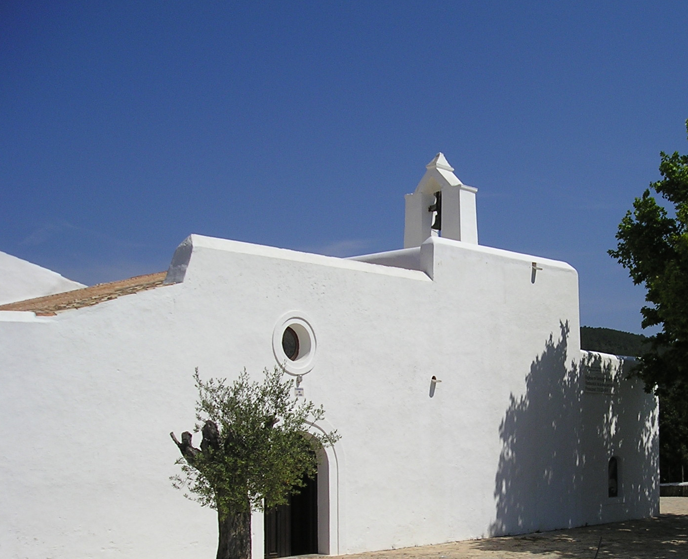 Church of Sant Agnes, Ibiza